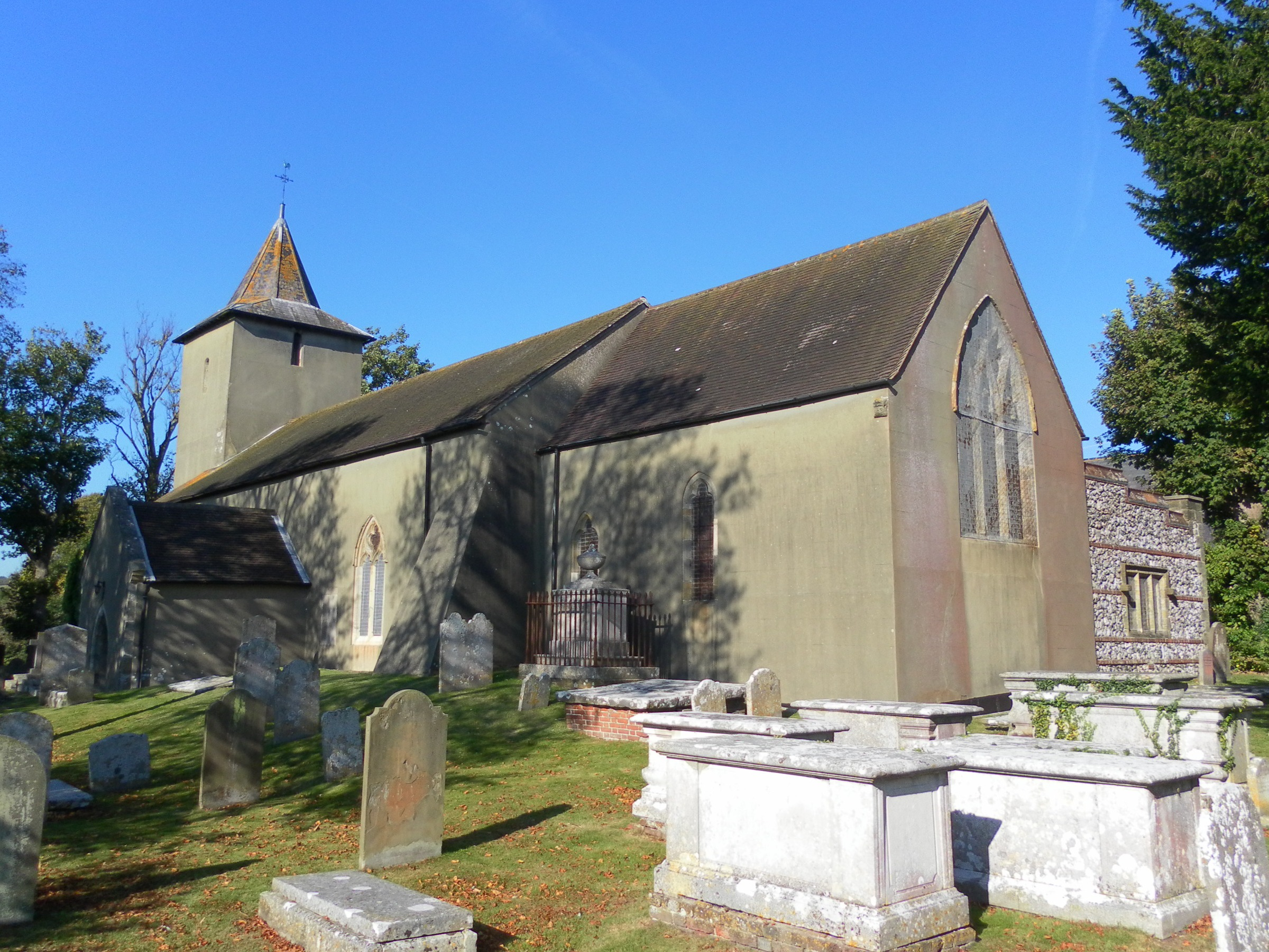 All Saints Church, Church Hill, Patcham, City of Brighton and Hove, England. The ancient parish church of Patcham, a village which is now within the city of Brighton and Hove. Listed at Grade II* by English Heritage (NHLE Code 1380264)